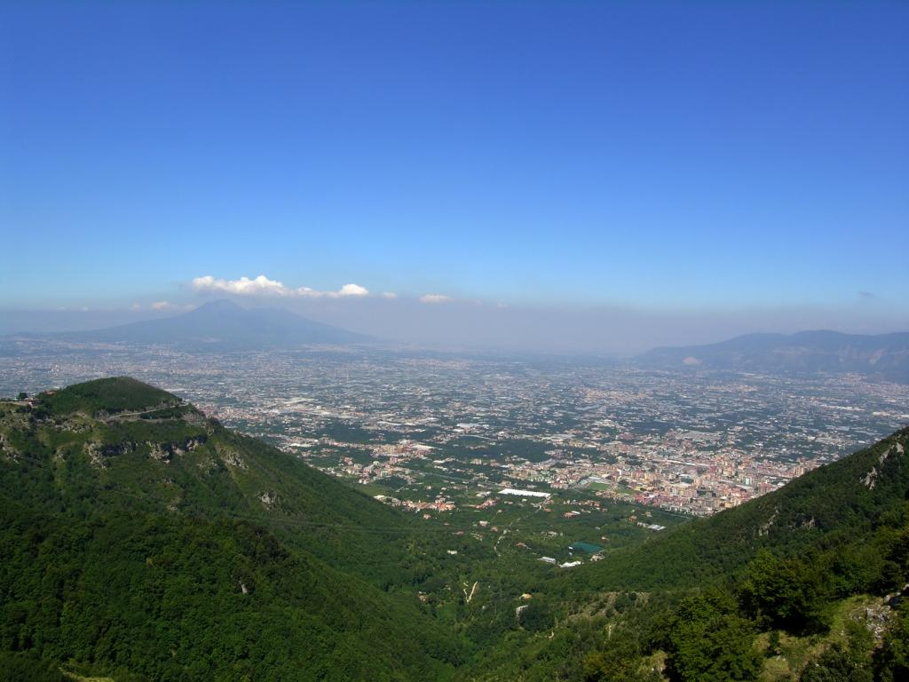 agro